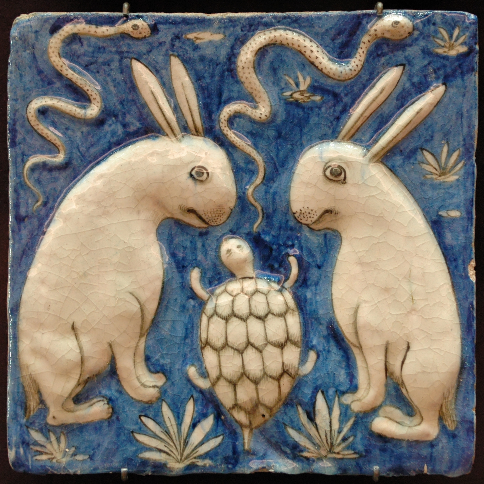 Tile with two rabbits, two snakes and a tortoise. Illustration for Zakariya al-Qazwini's book, Marvels of Things Created and Miraculous Aspects of Things Existing (13th century). Earthenware, molded and underglaze-painted decoration. Iran, 19th century.